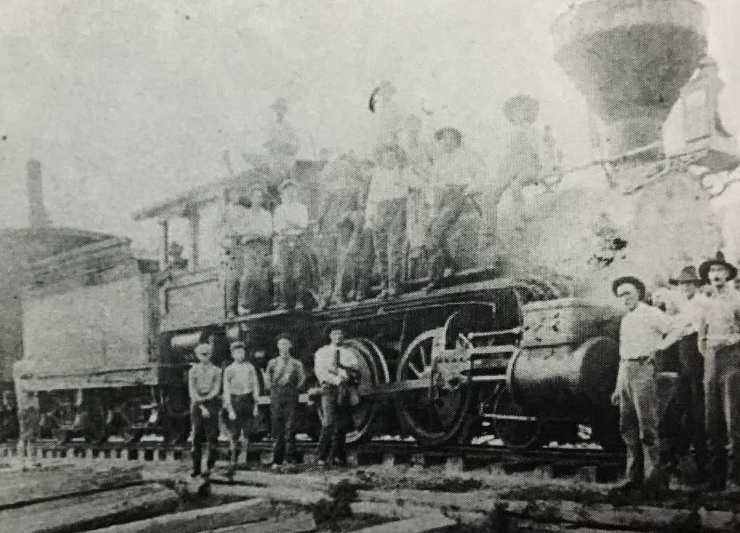 Train in Lake City, Florida in the early 1900s.